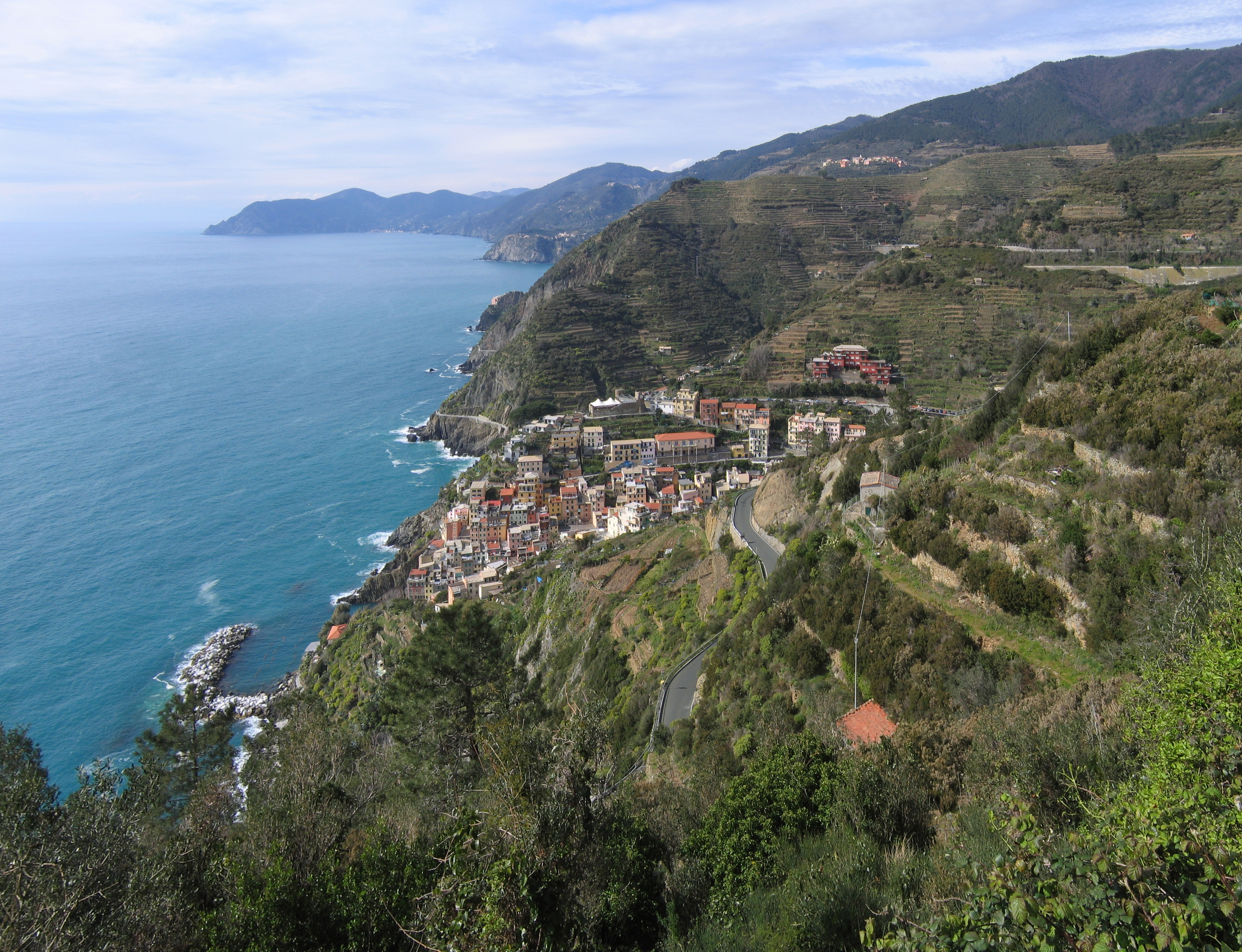 Riomaggiore and Cinque Terre seen from the access road